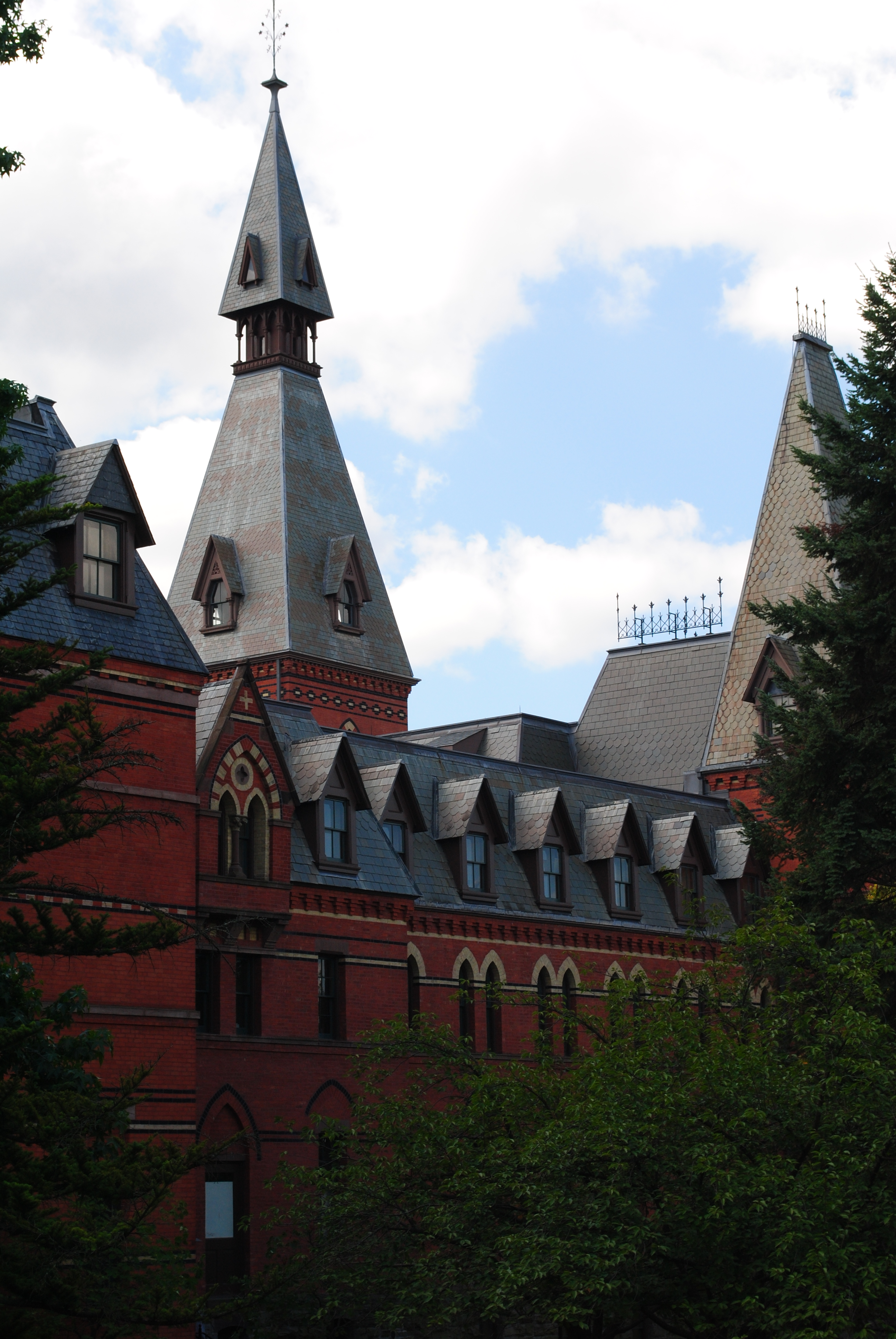 Sage Hall exterior